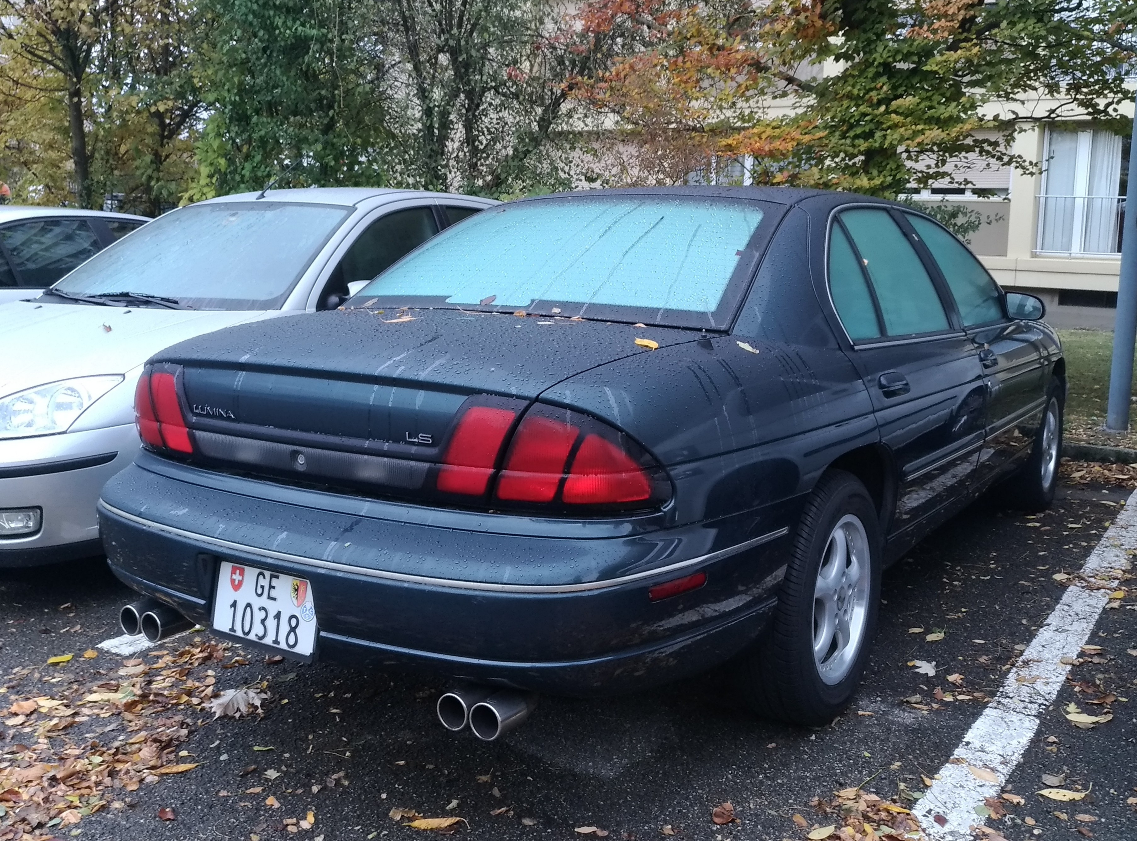 Chevrolet Lumina (V6 3.4 200 hp) at Genève. Probably my favorit spot for this day at Geneve.